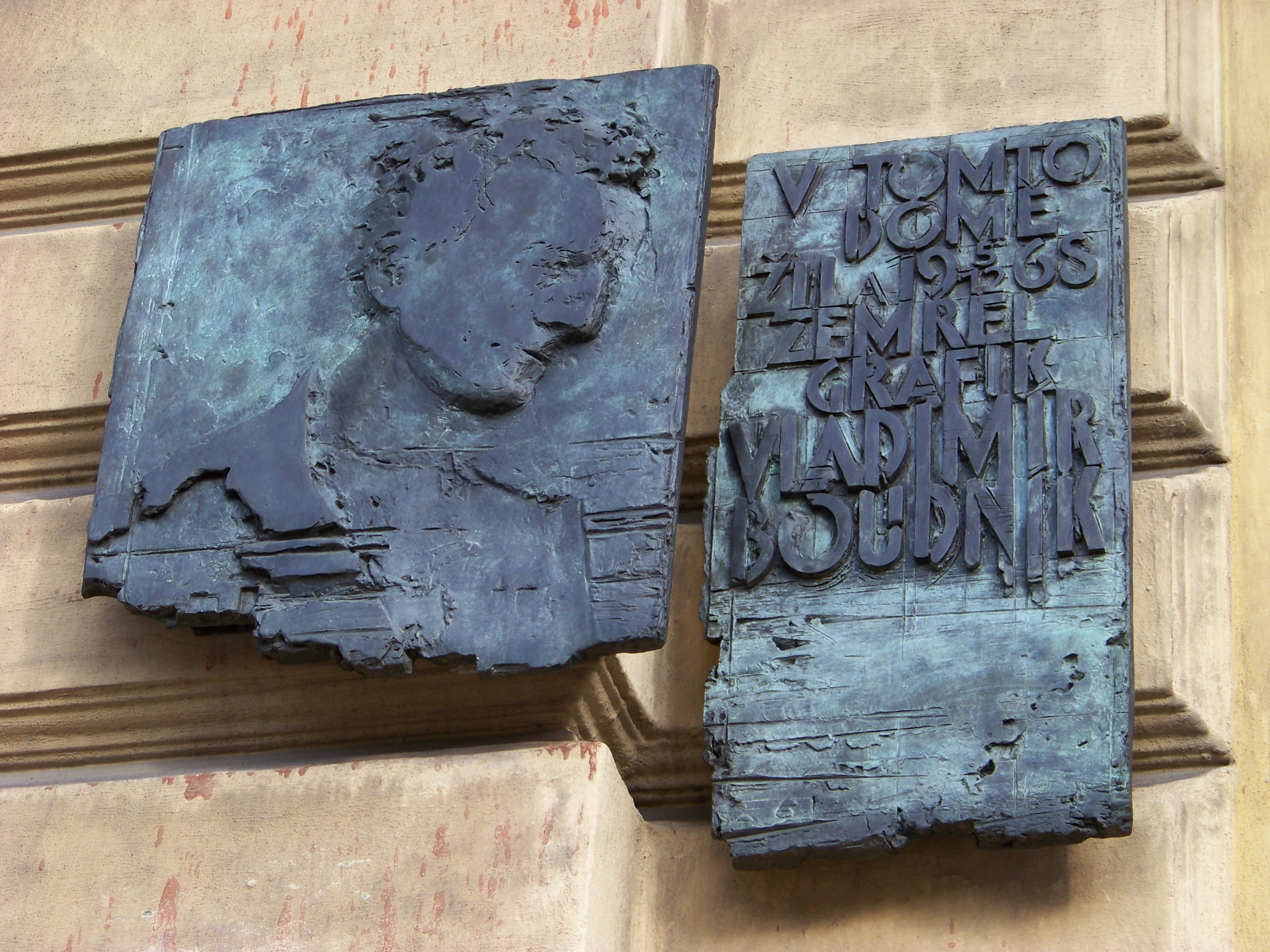 Prague-Žižkov, the Czech Republic. Konstanz Square, a plaque to Vladimír Boudník.